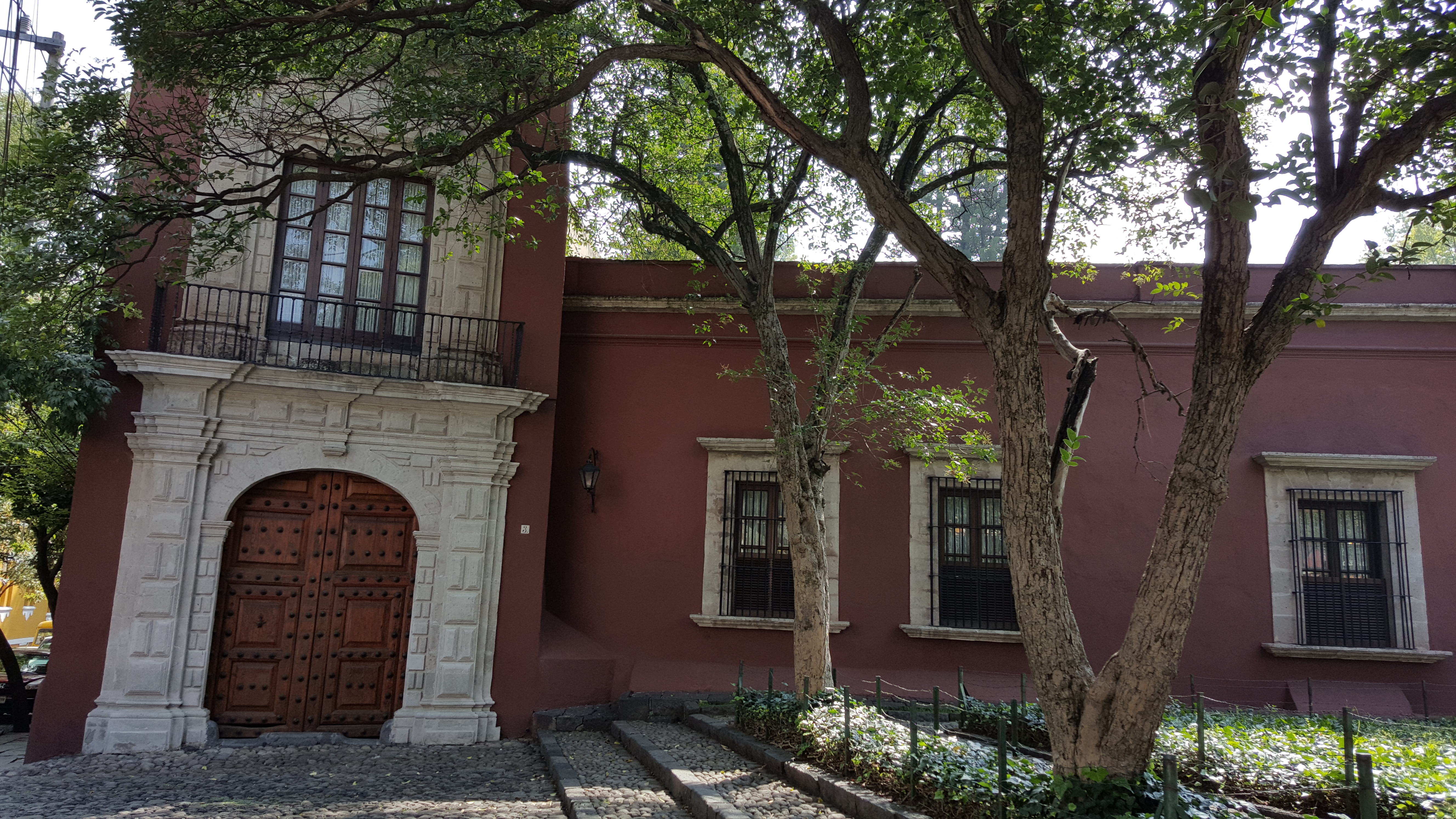 This image shows the facade and main entrance of a house located in the borough of San Ángel in Mexico City. The house has a colonial style and a beautiful wooden door. At the right, there's part of its front yard.